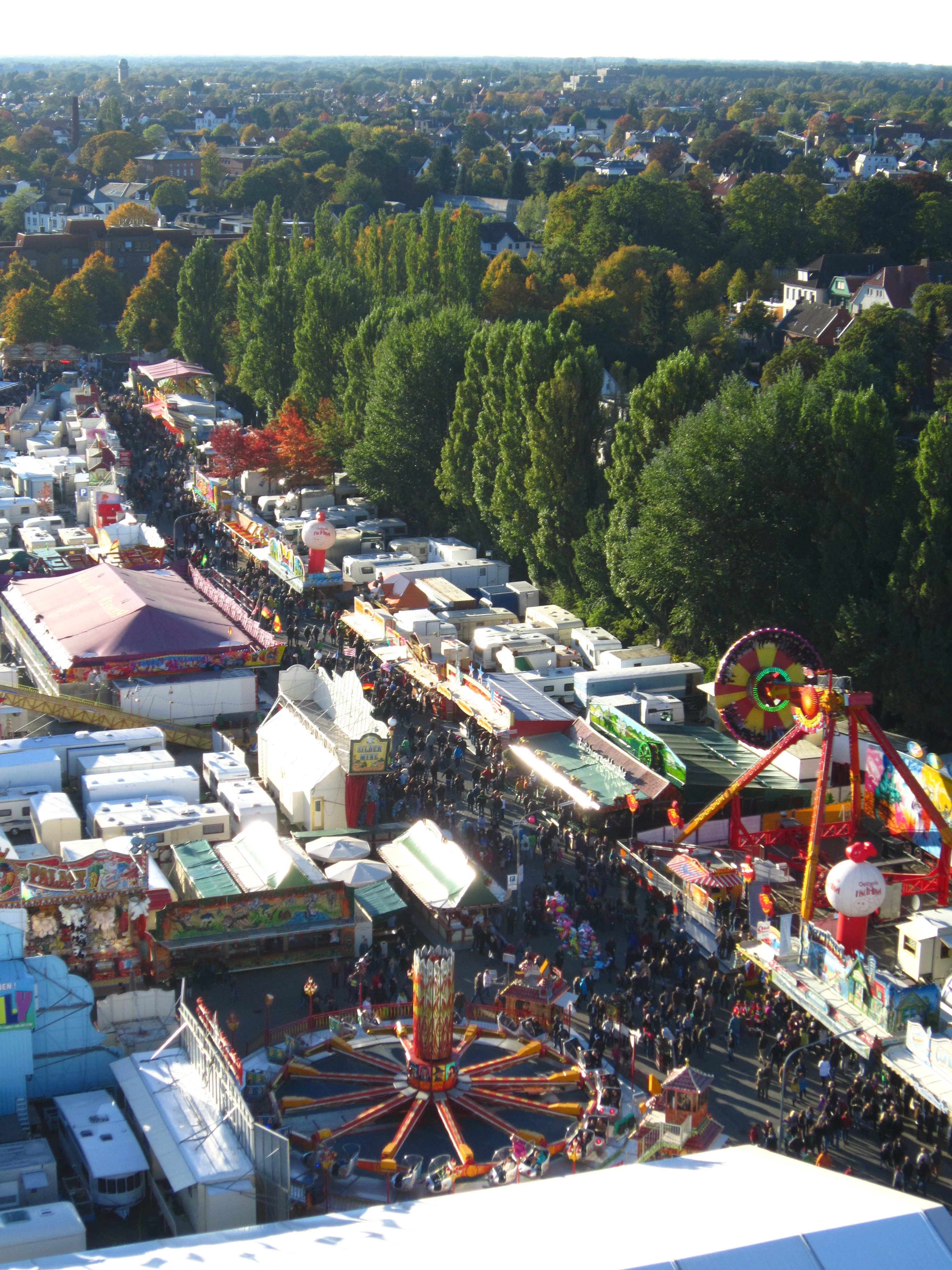 View from the Ferris wheel to Oldenburg Kramermarkt